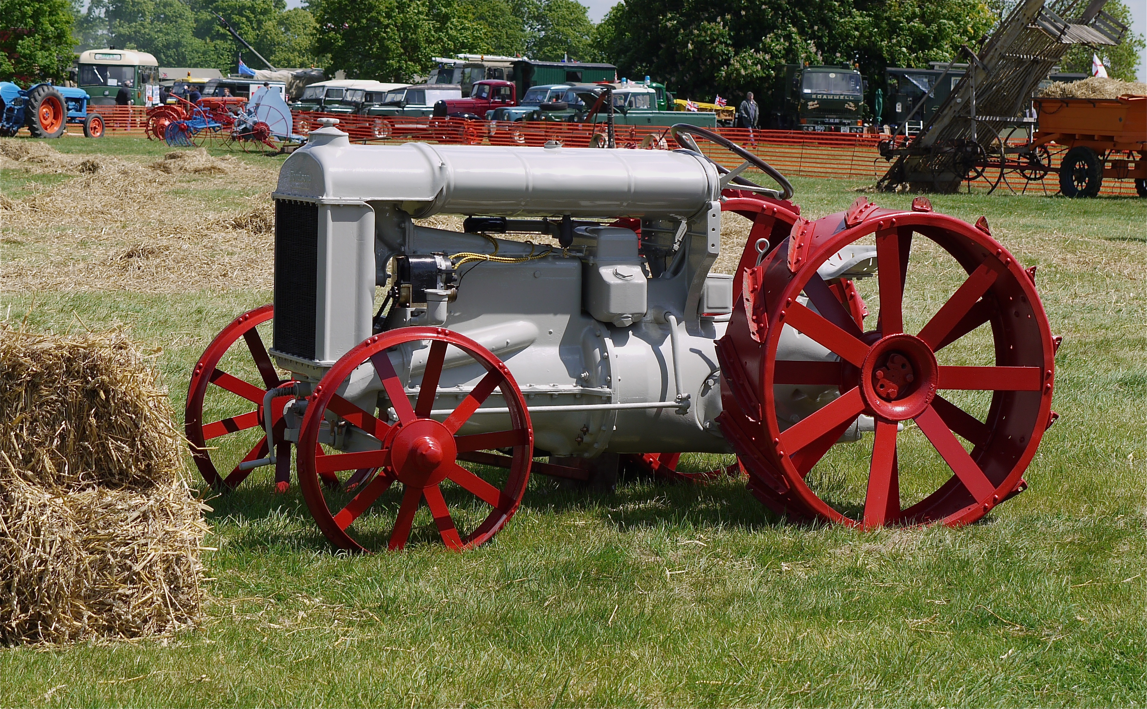 Vintage Fordson tractor; Panasonic G1 14-45 Lens